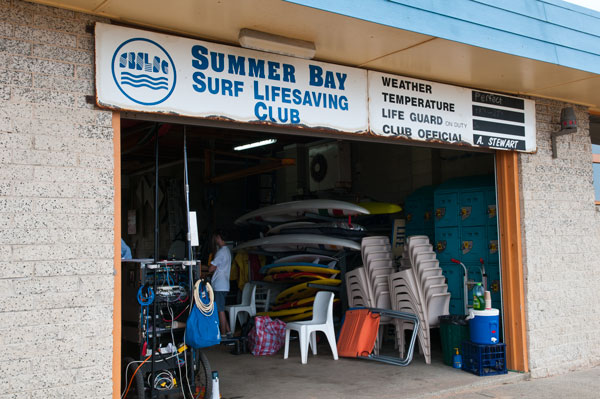 This picture was taken by John Campbell during a set visit to Palm Beach, Sydney in 2011. The set is featured in Australian soap opera Home and Away